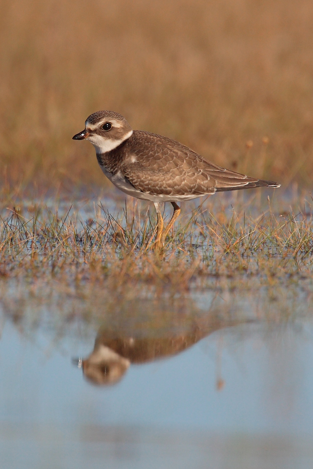 Semipalmated Plover -- Singing Sands, Bruce Peninsula National Park, Canada -- 2005 September Semipalmated Plover -- Singing Sands, Bruce Peninsula National Park, Canada -- 2005 September